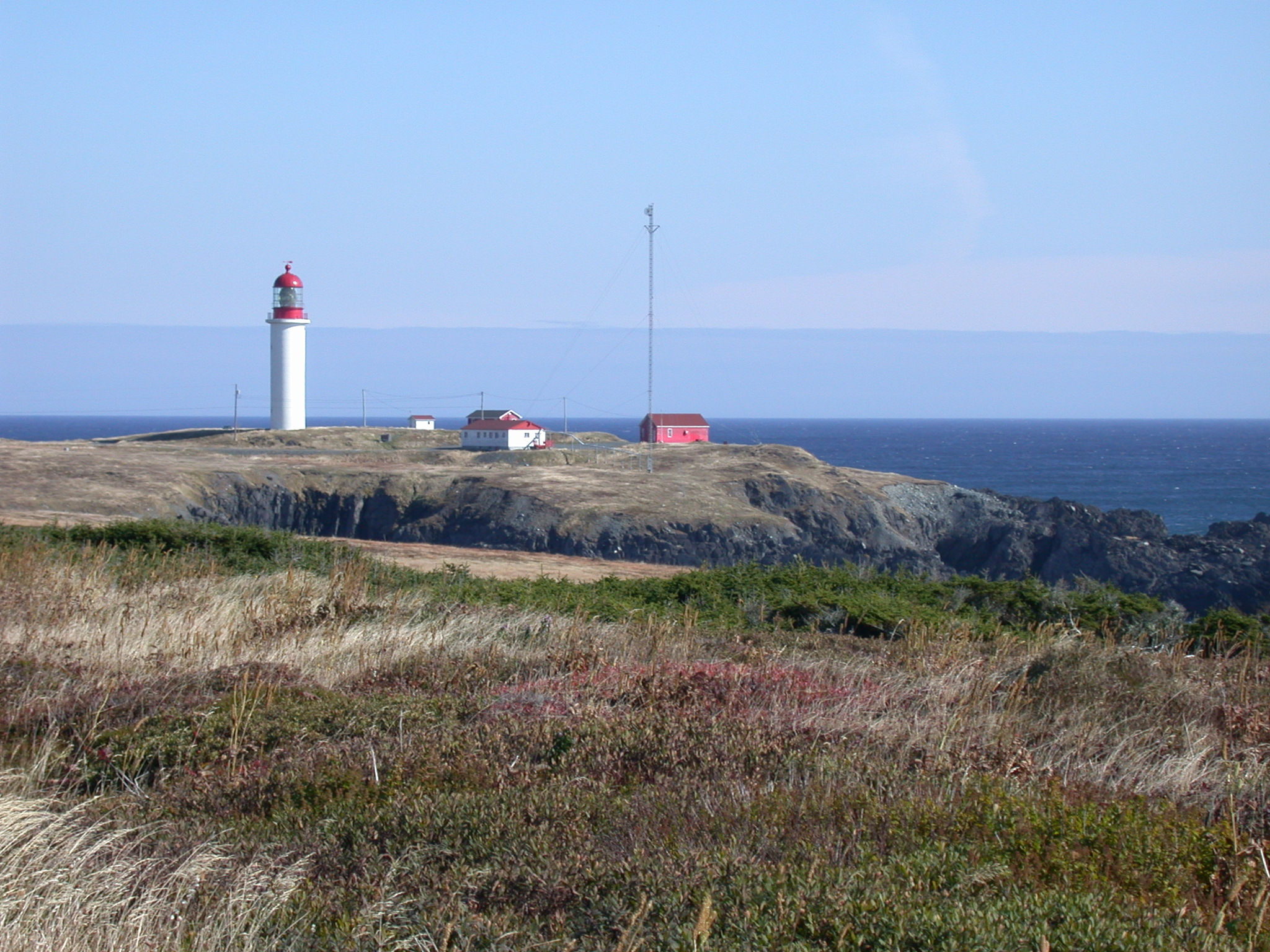 photograph of Cape Race, Newfoundland, Canada taken on 2002-10-19 taken by Andrew Hunt with a Nikon Coolpix 995 digital camera